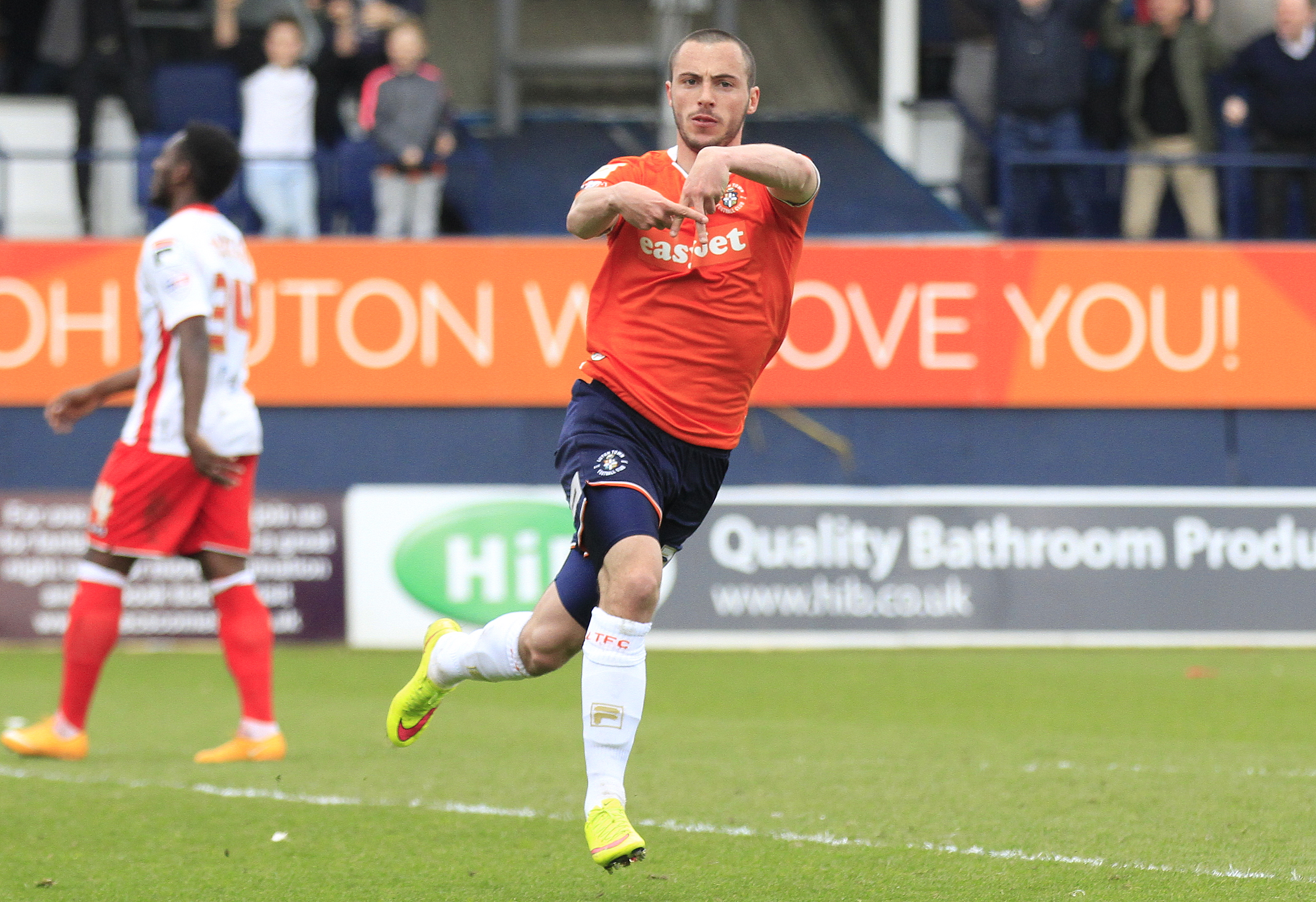 Michael Harriman celebrating Luton Town goal